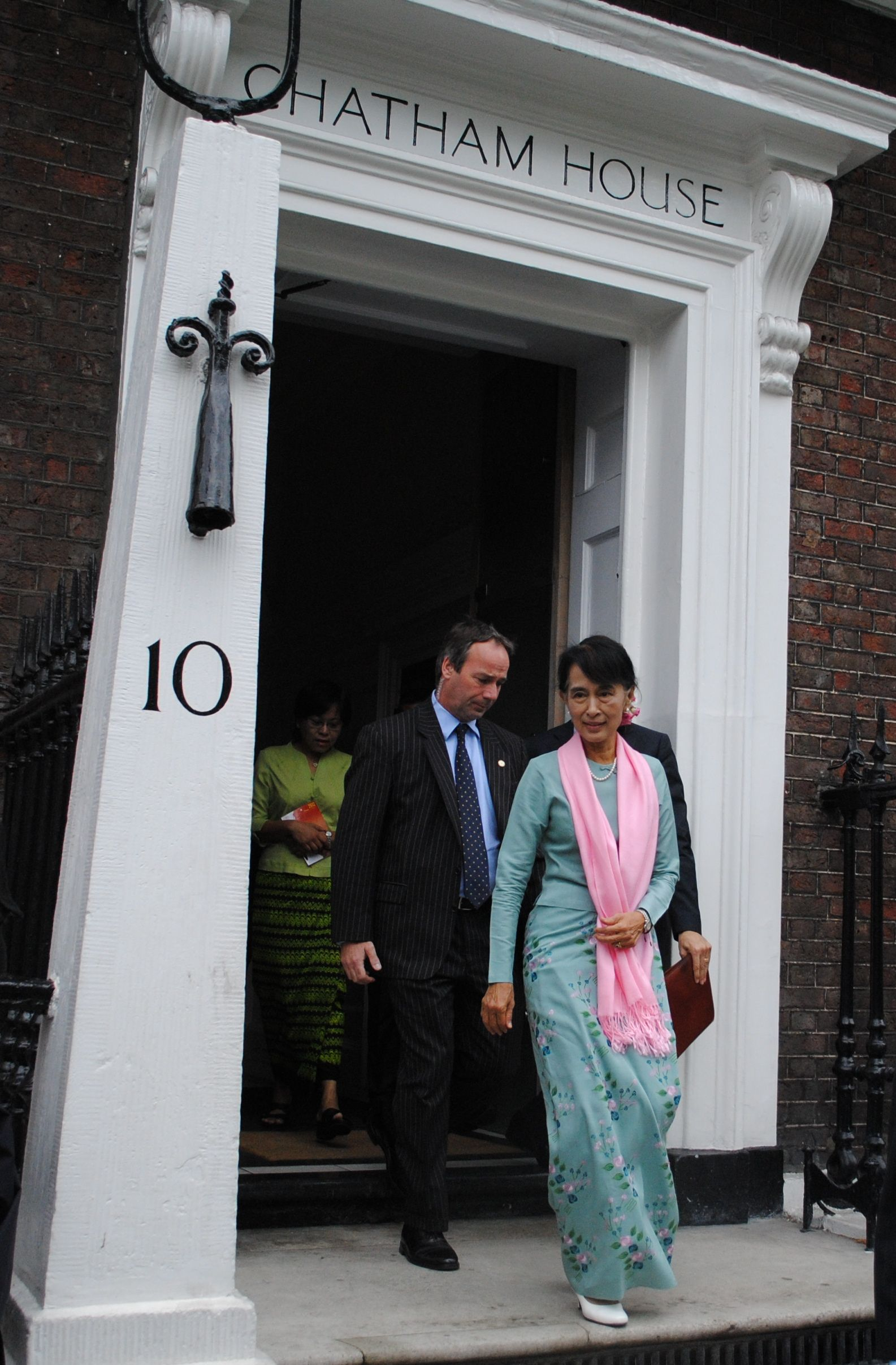 Aung San Suu Kyi leaving Chatham House